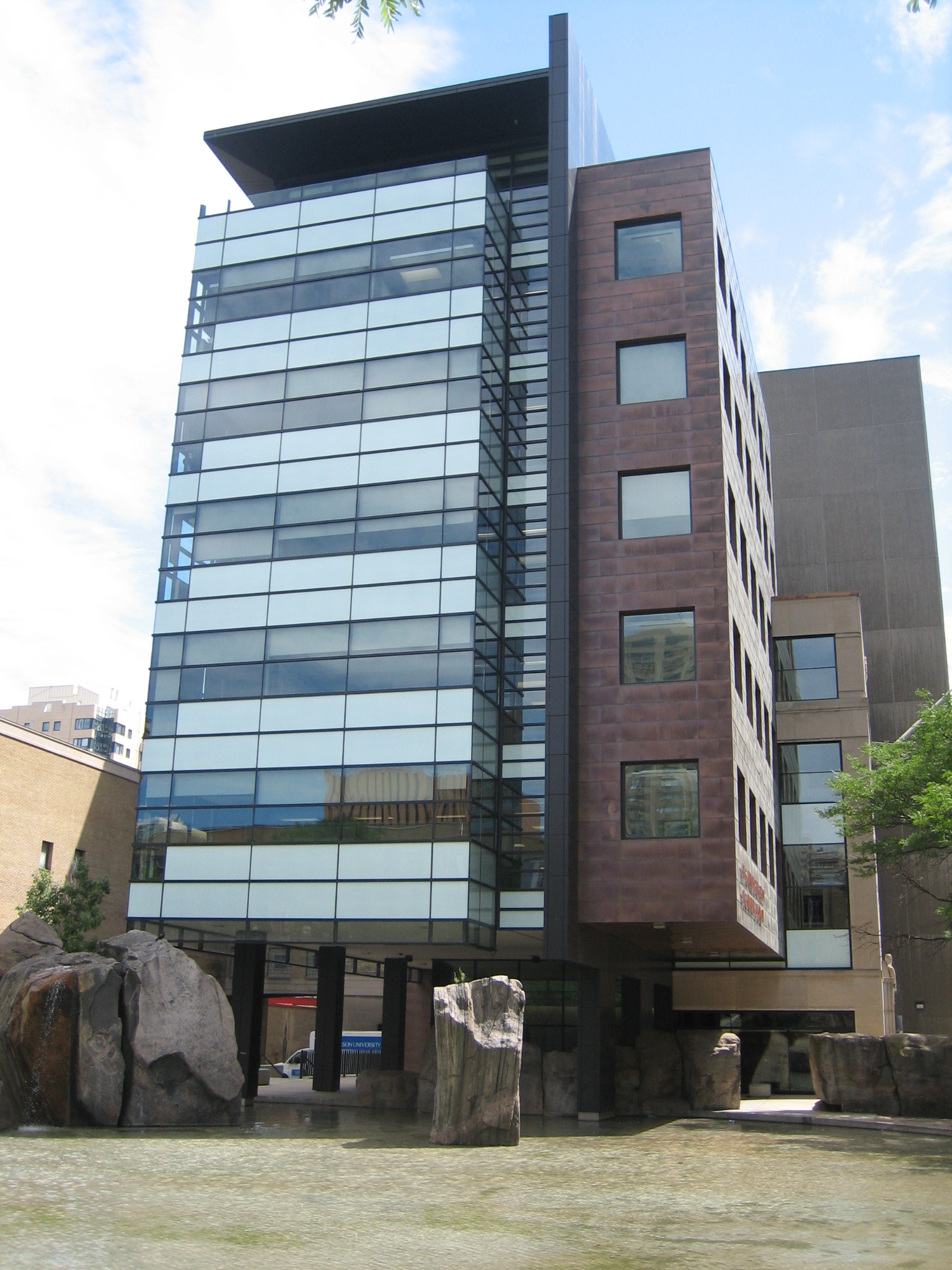 Heaslip House-Raymond Chang School of Continuing Education